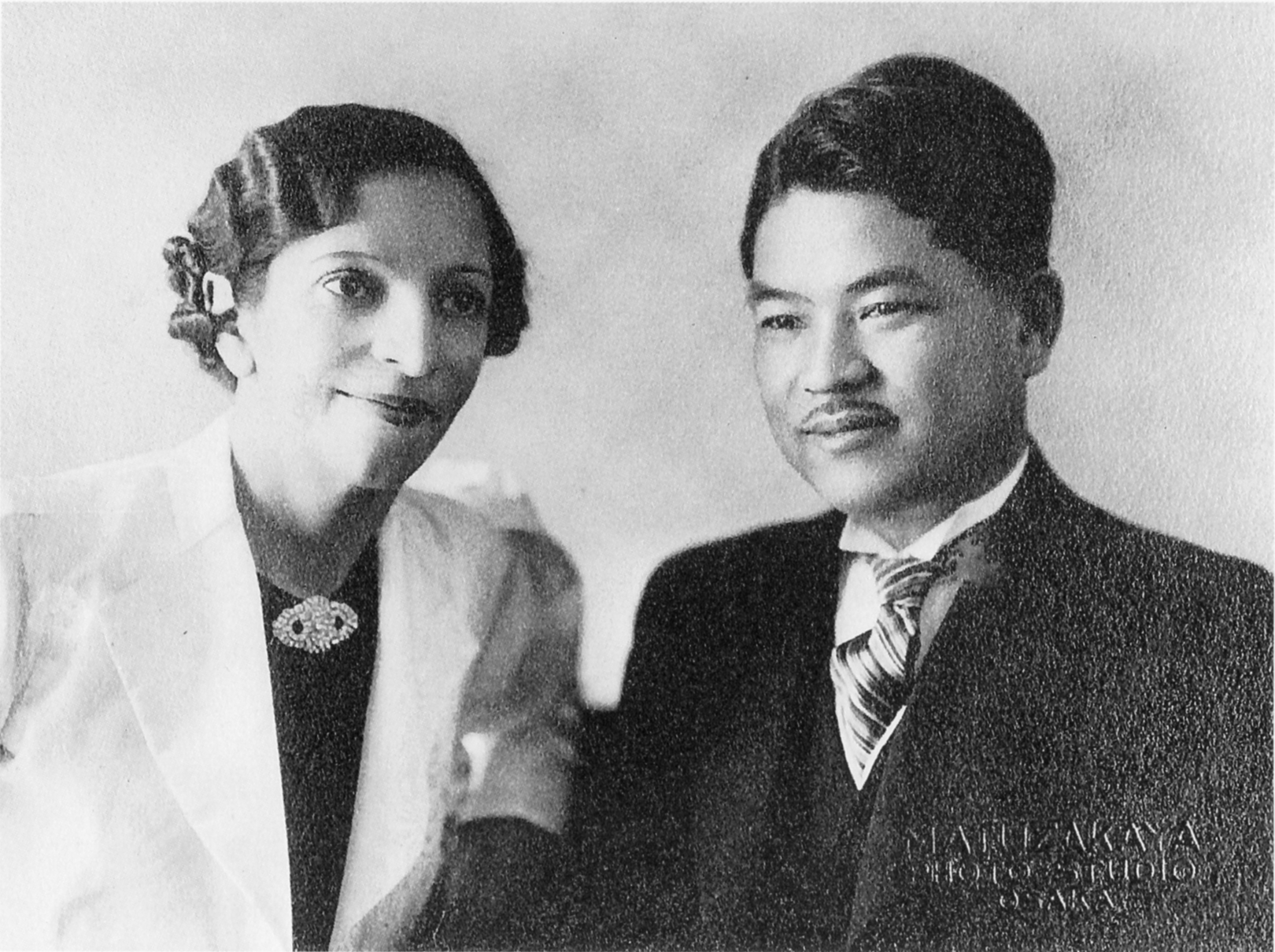 Photo of Mr. and Mrs.Ōhashi